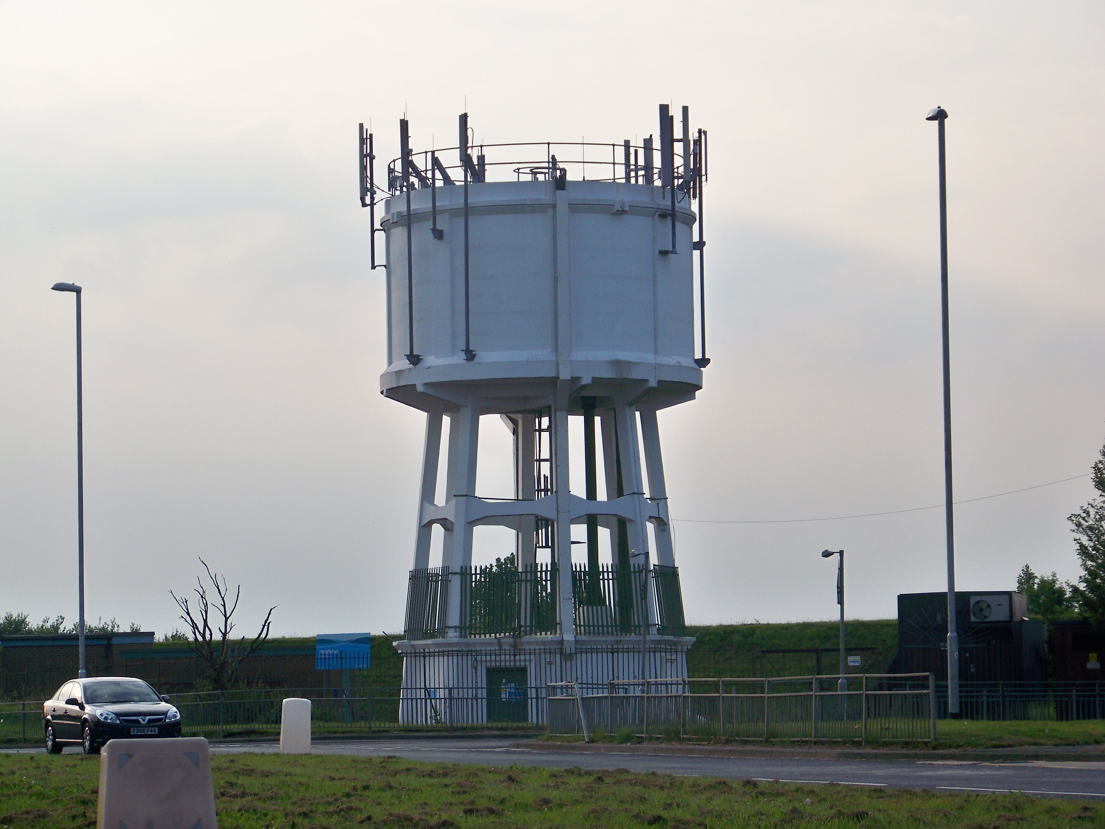 Middleton Water Tower, from the Middleton Ring Road, Middleton, Leeds, West Yorkshire, UK. Taken on the evening of Wednesday 1st July 2009.